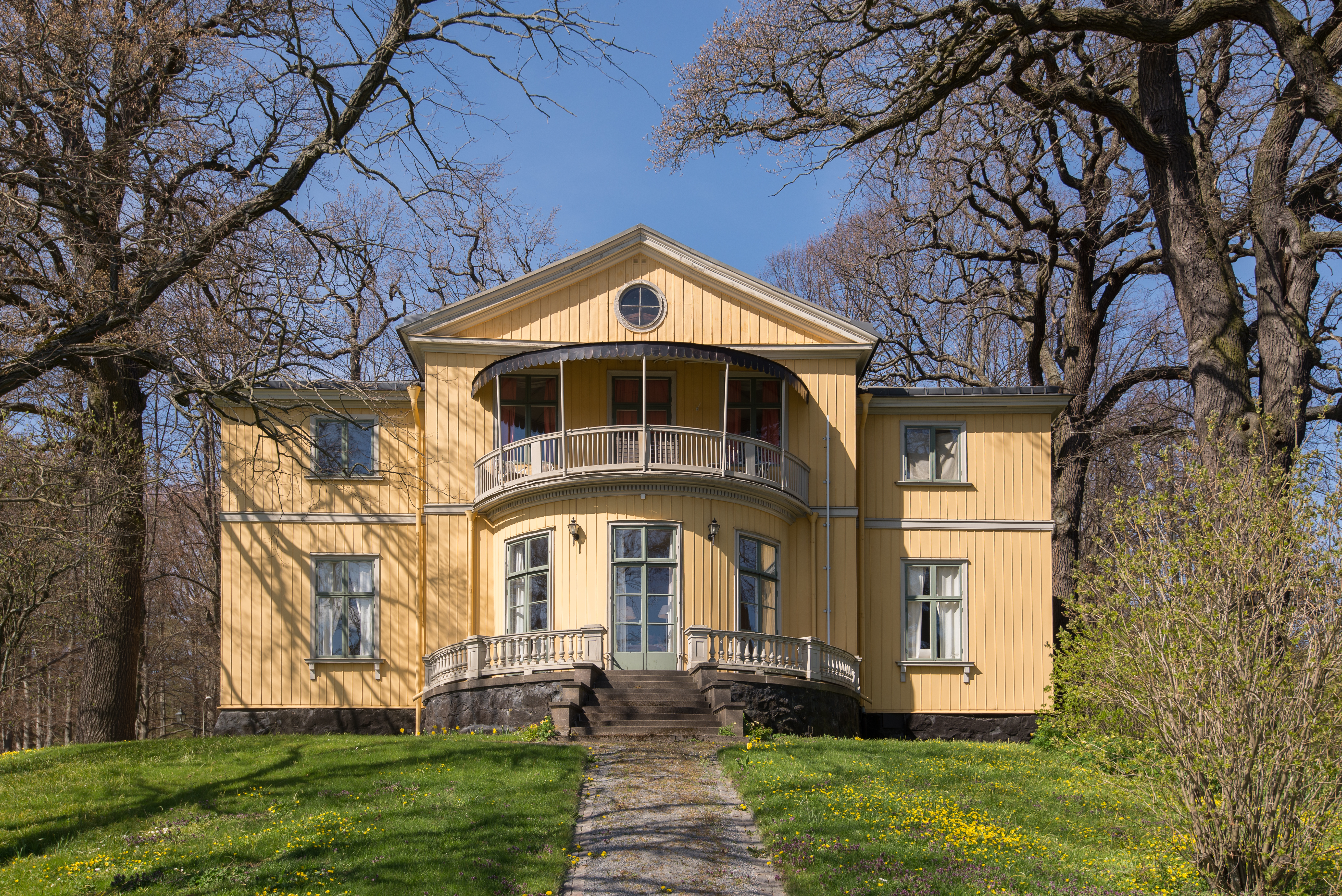 Villa Listonhill in Djurgården, Stockholm. Built 1790-1791, architect Fredrik Magnus Piper. Listonhill was built for Robert Liston, British ambassador in Stockholm 1788–1793.